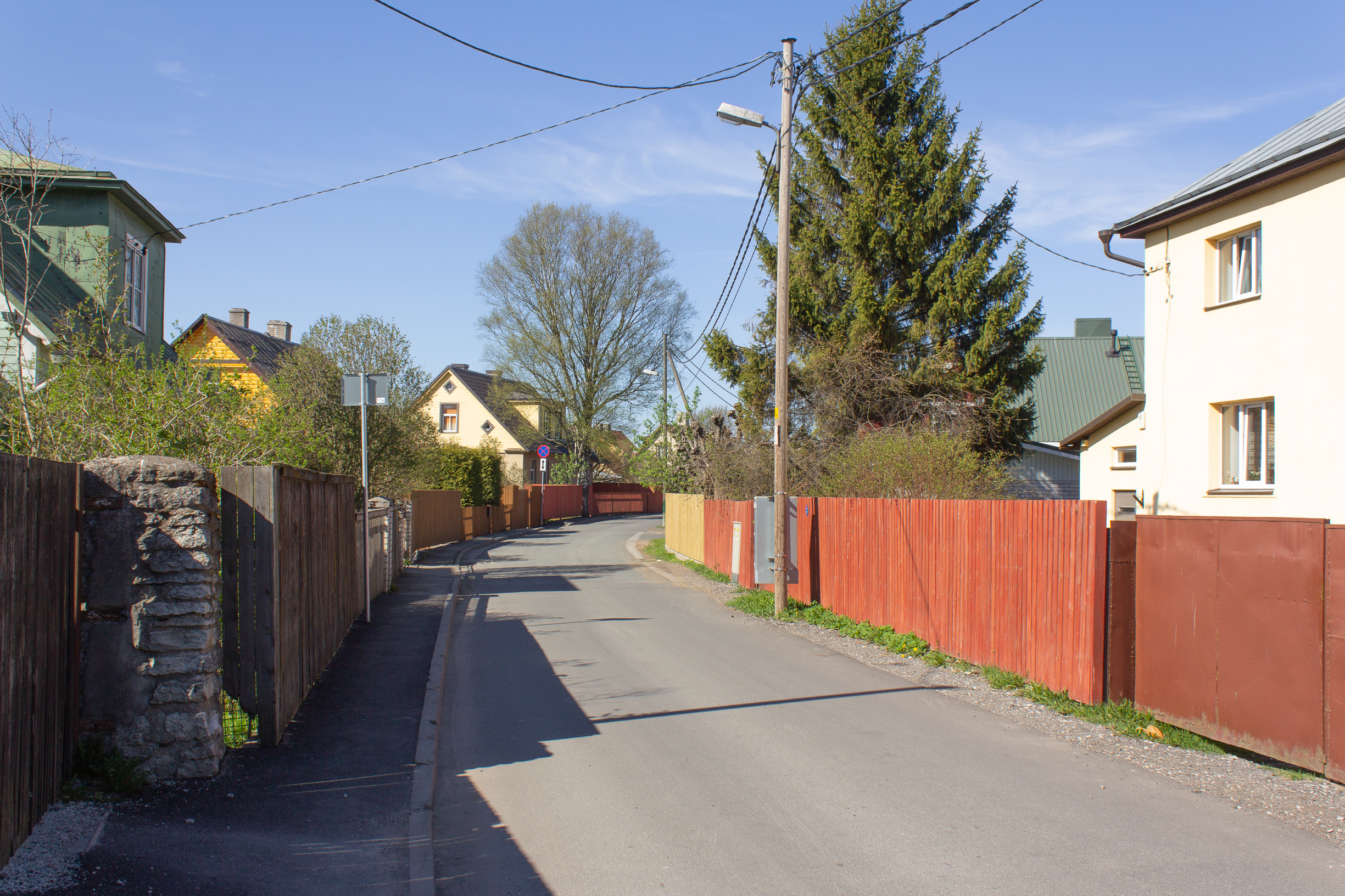 Neeme Street